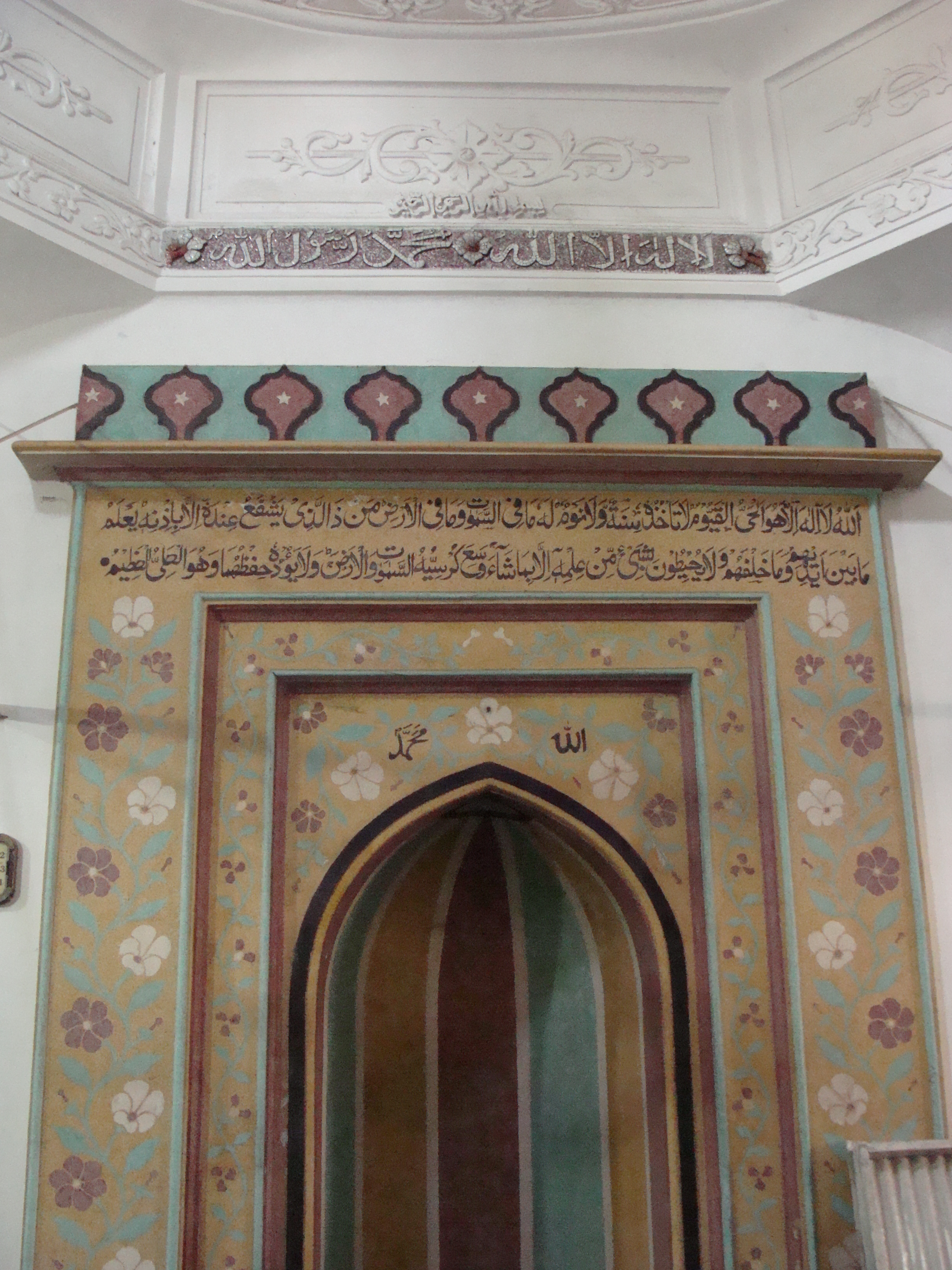 The ornamentation of the central Mihrab of the Chawkbazar Shahi Mosque, Dhaka, Bangladesh.